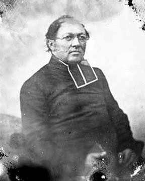 Joesph Cretin